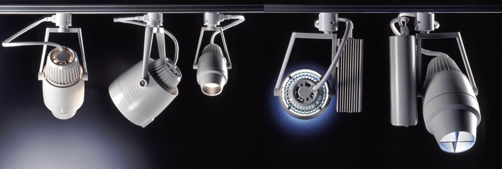 Works of KAWAKAMI Motomi 013-2003